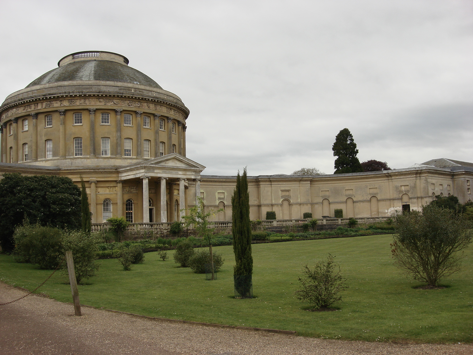 Ickworth House